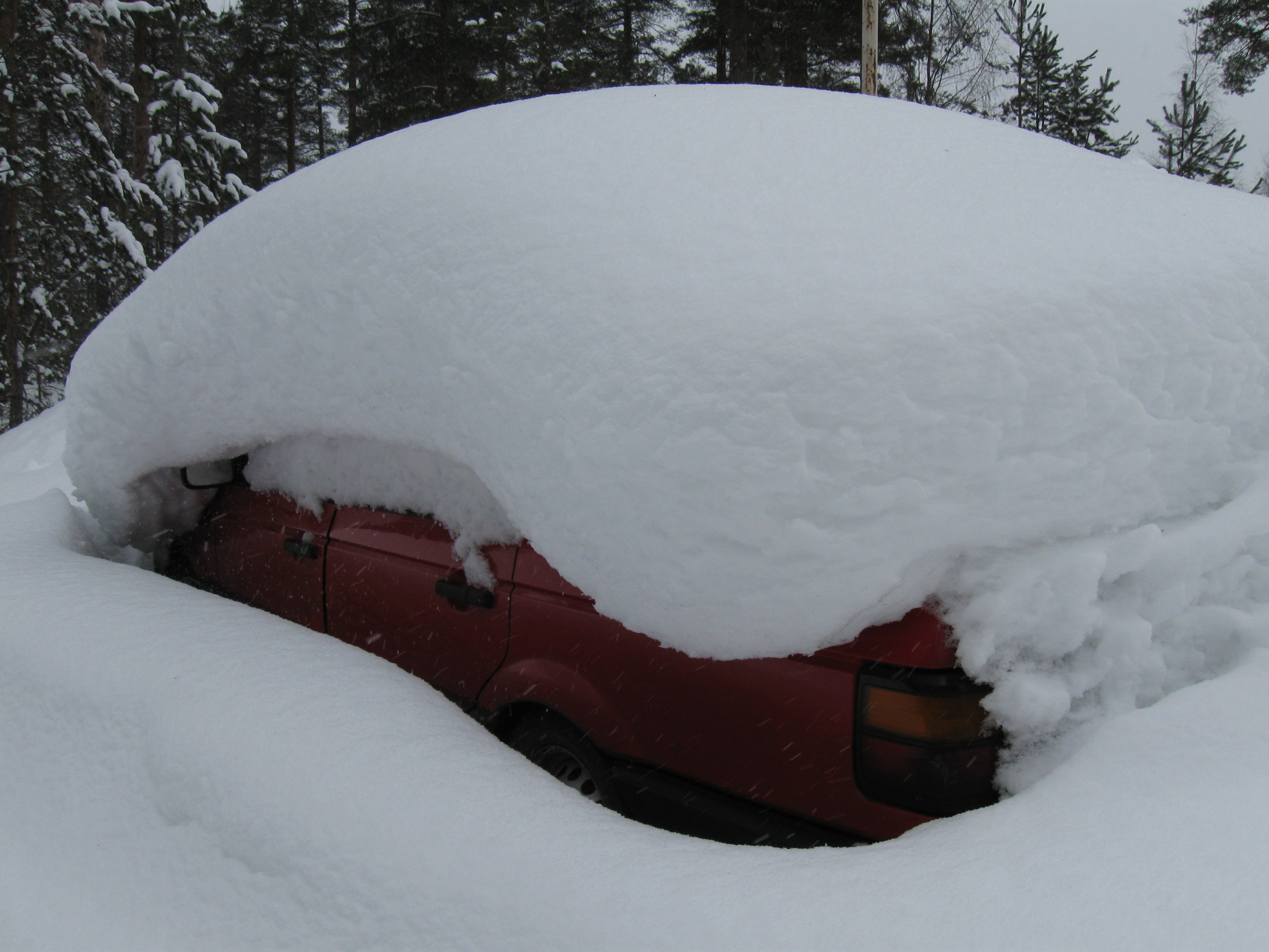 A Volkswagen Passat car carrying a heavy load of snow in Oulu, Finland, in March 2010.